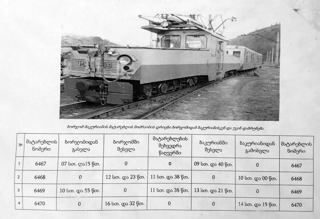 Time Table of Borjomi–Bakuriani Train (2019)